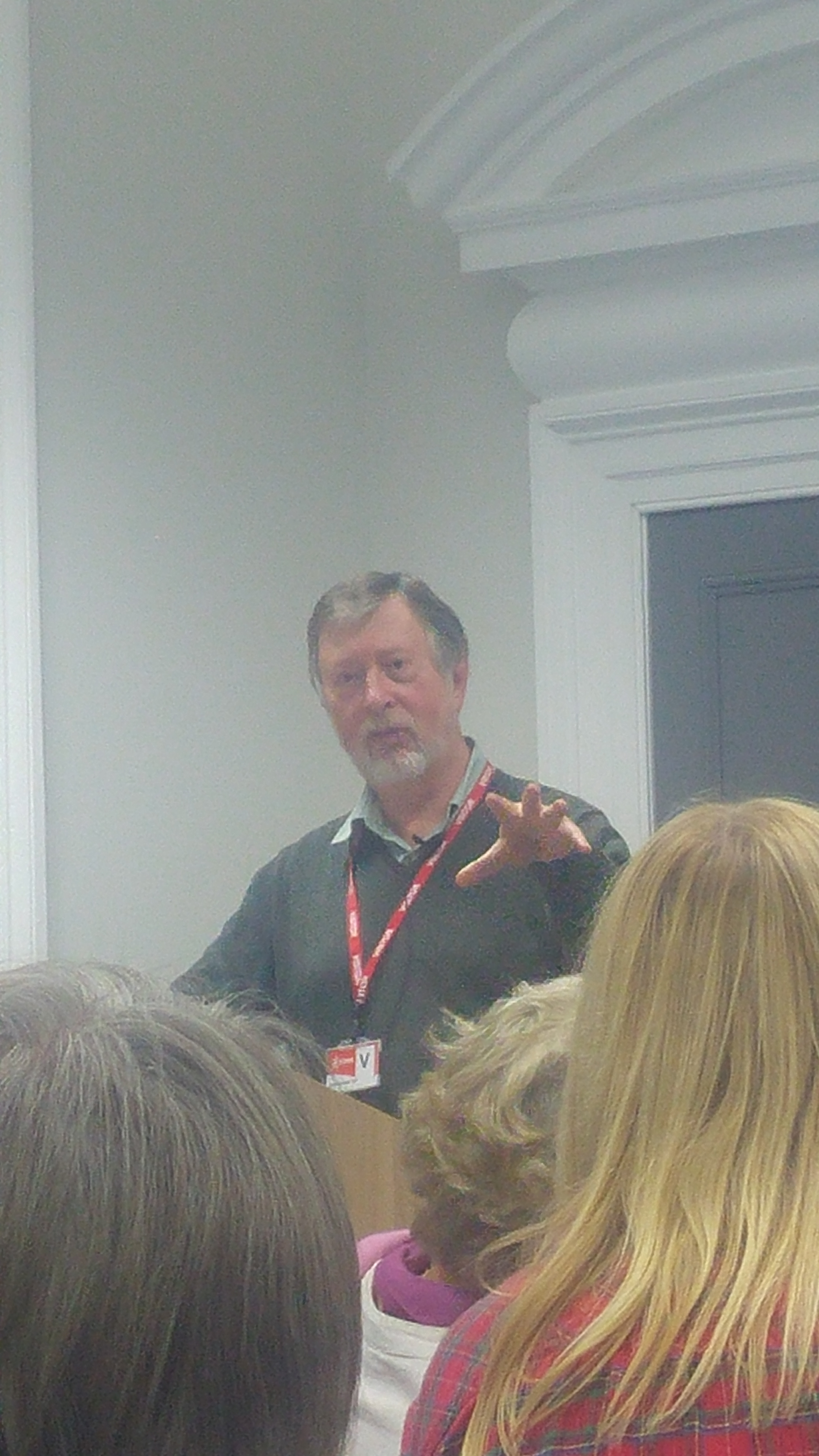 Richard Morris - archaeologist and historian at the Anglian York conference 2019